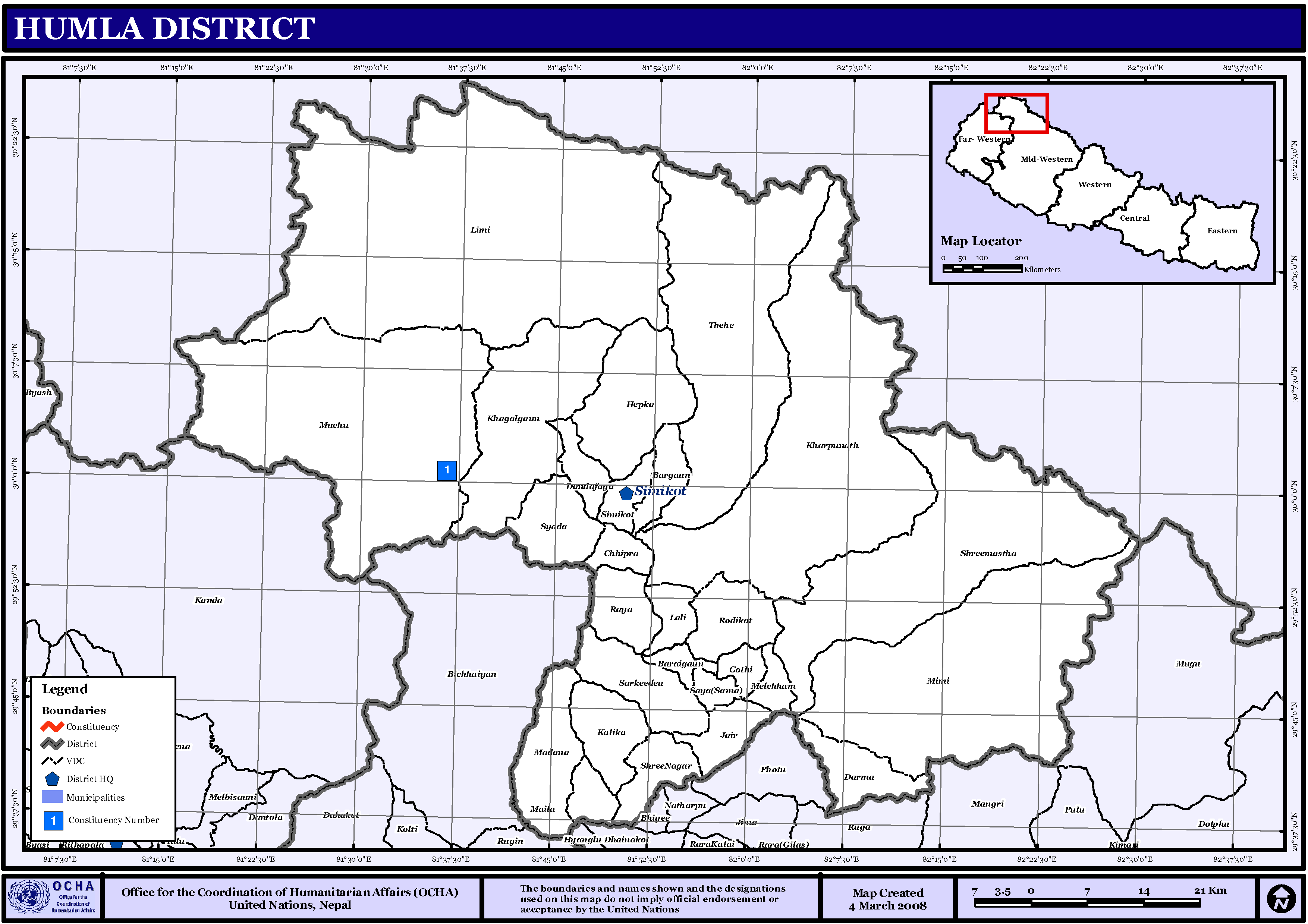 Map displaying Village Development Committees in Humla District, Nepal